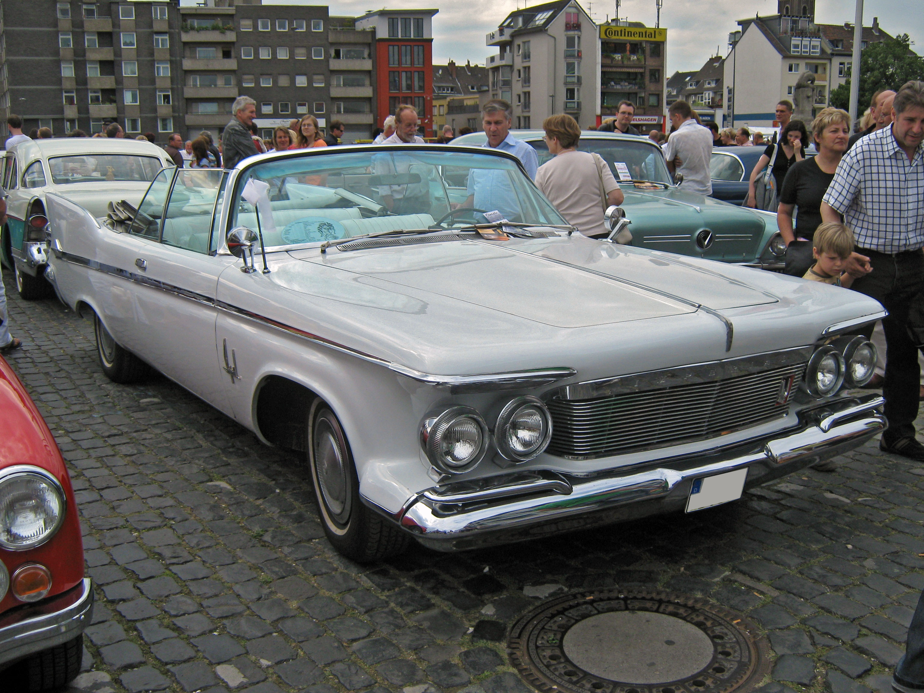 1961 Imperial Crown Convertible frontview